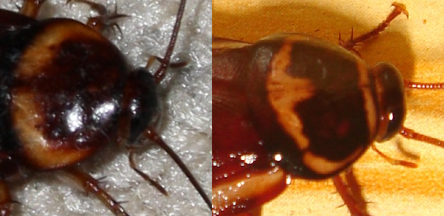 An American Cockroach photographed in a house in Portland, Texas, United States, on August 14, 2009.